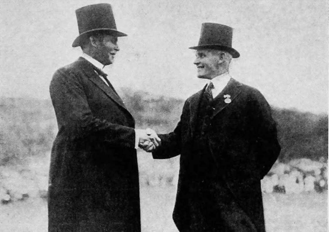 A portrait of Mayor Cronin (right) shaking hands with George F. Pearsons, son of William B. C. Pearsons, the City of Holyoke's first mayor.